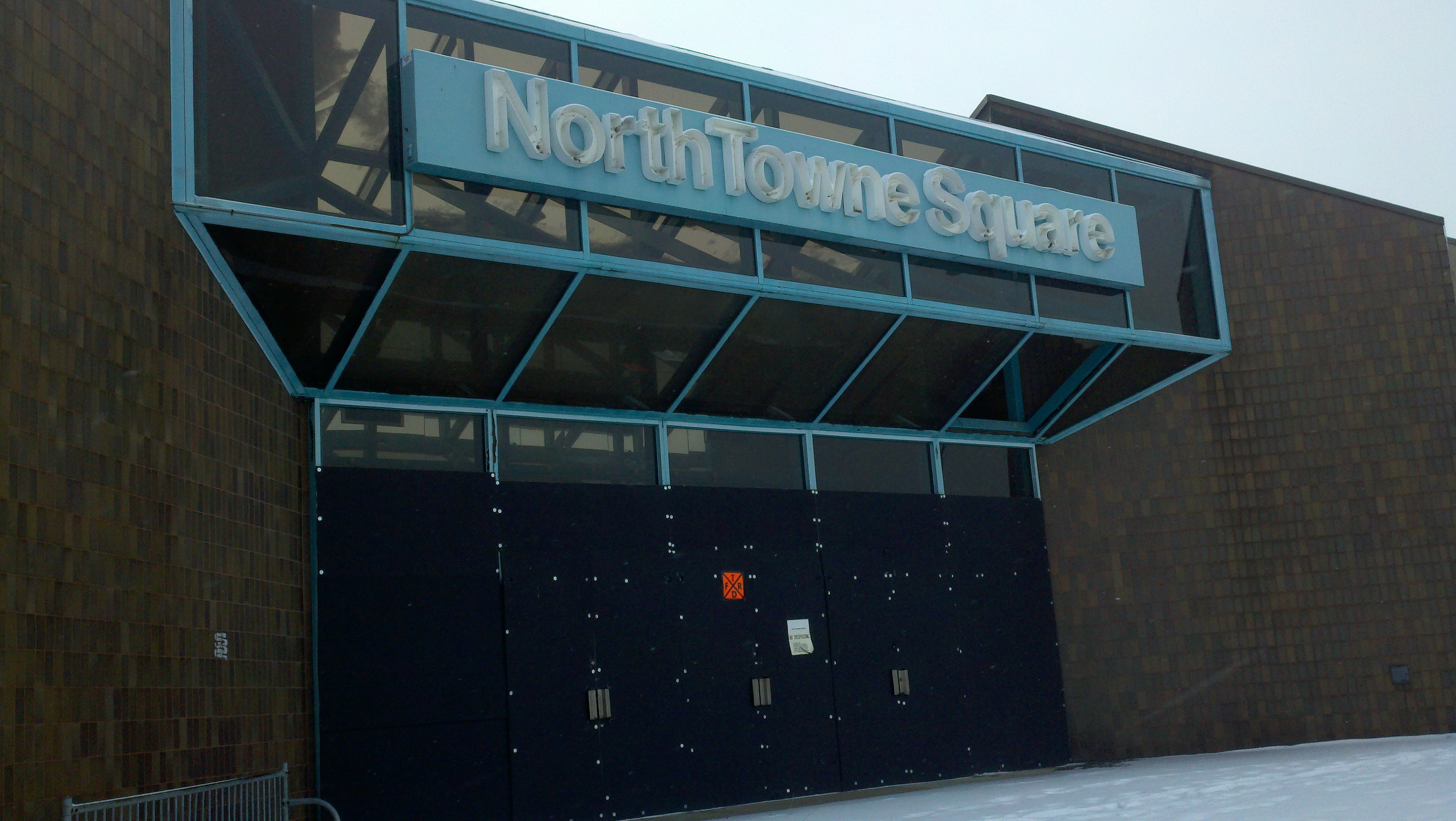 North Town Square in January, 2011.